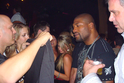 Quinton Jackson in The Strip, Las Vegas, on February 12, 2010